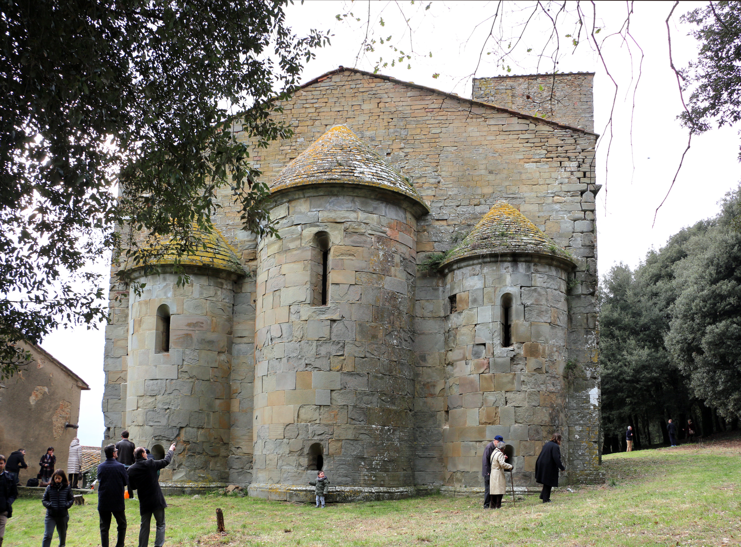 San Giusto al Pinone